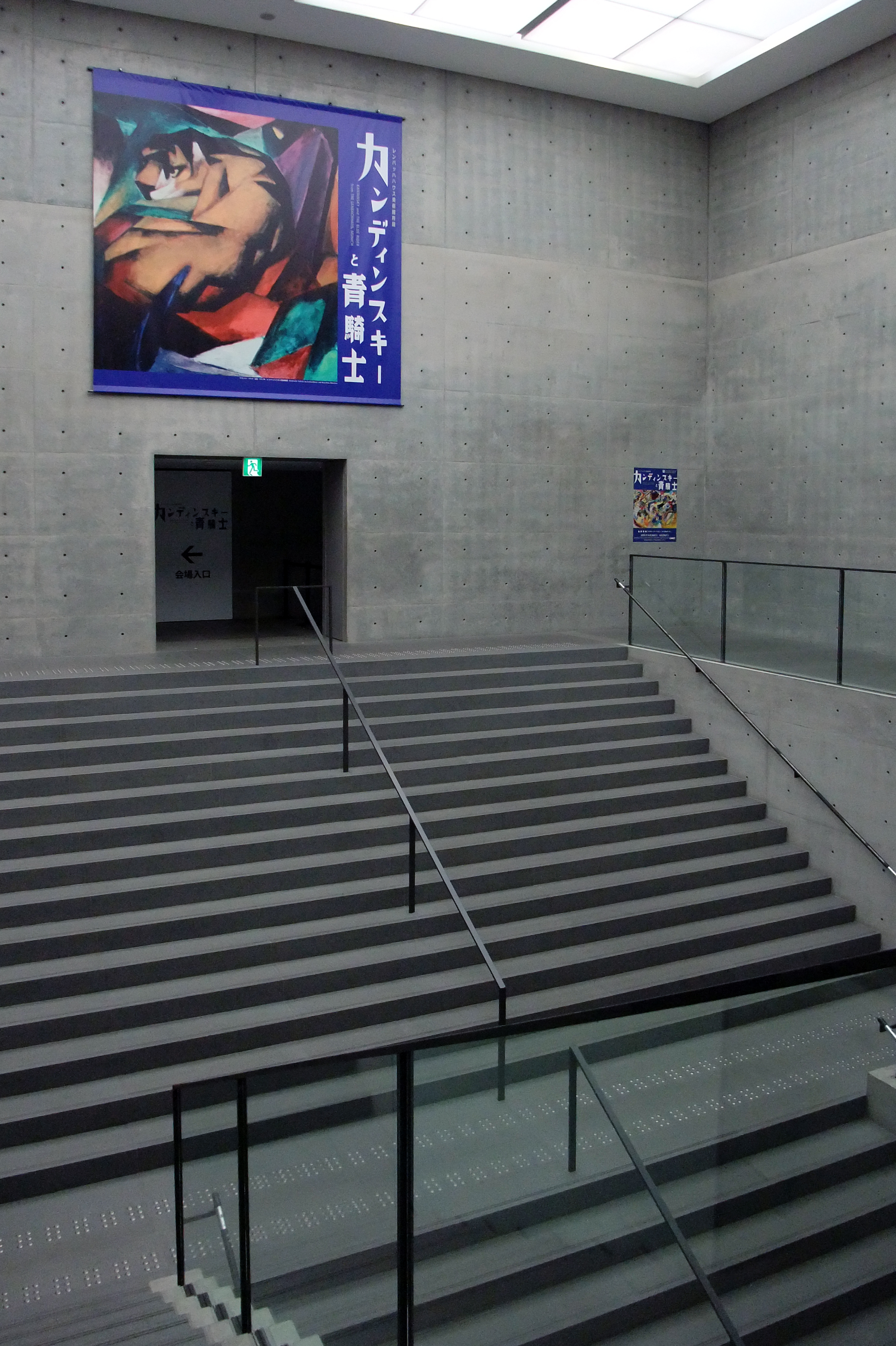 Hyogo Prefectural Museum of Art in Kobe, Hyogo prefecture, Japan